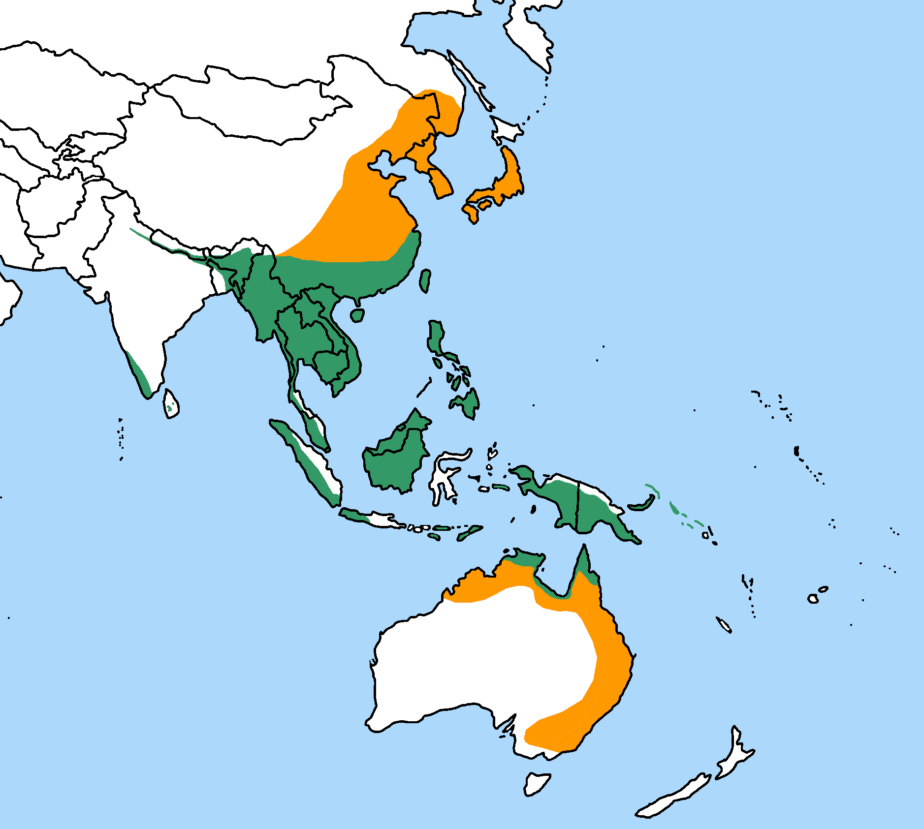 Author: Ulrich Prokop (Scops) Drawn after C. Hillary Fry and Kathie Fry: Kingfishers, Bee-Eaters & Rollers.Princeton University Press, Princeton, New Jersey 1999. p 104. ISBN 0-691-04879-7